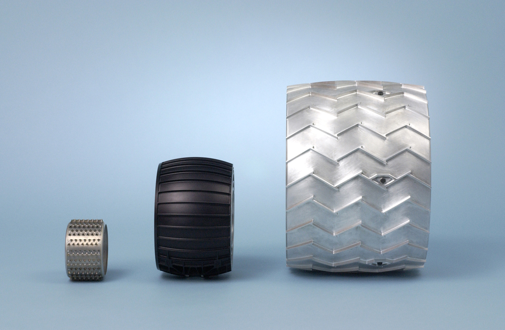 Image Credit: NASA/JPL; -- Wheel size comparison: Sojourner, Mars Exploration Rover (Spirit/Opportunity), Mars Science Laboratory (Curiosity).